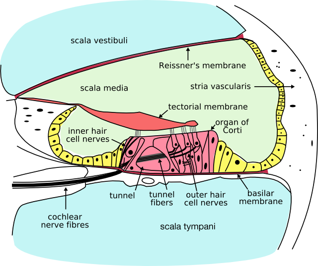 made in inkscape